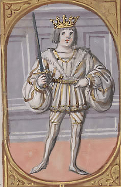 Ferdinand IV of Castile